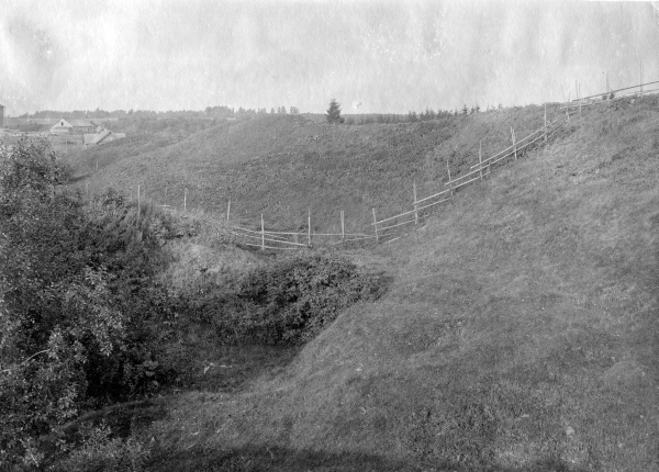 Ладожская бастионная крепость. Вид на ров, куртину и фланк бастиона крепости. Археологические исследования Н. И. Репникова 1909 г. ФА ИИМК РАН. О.746.48.